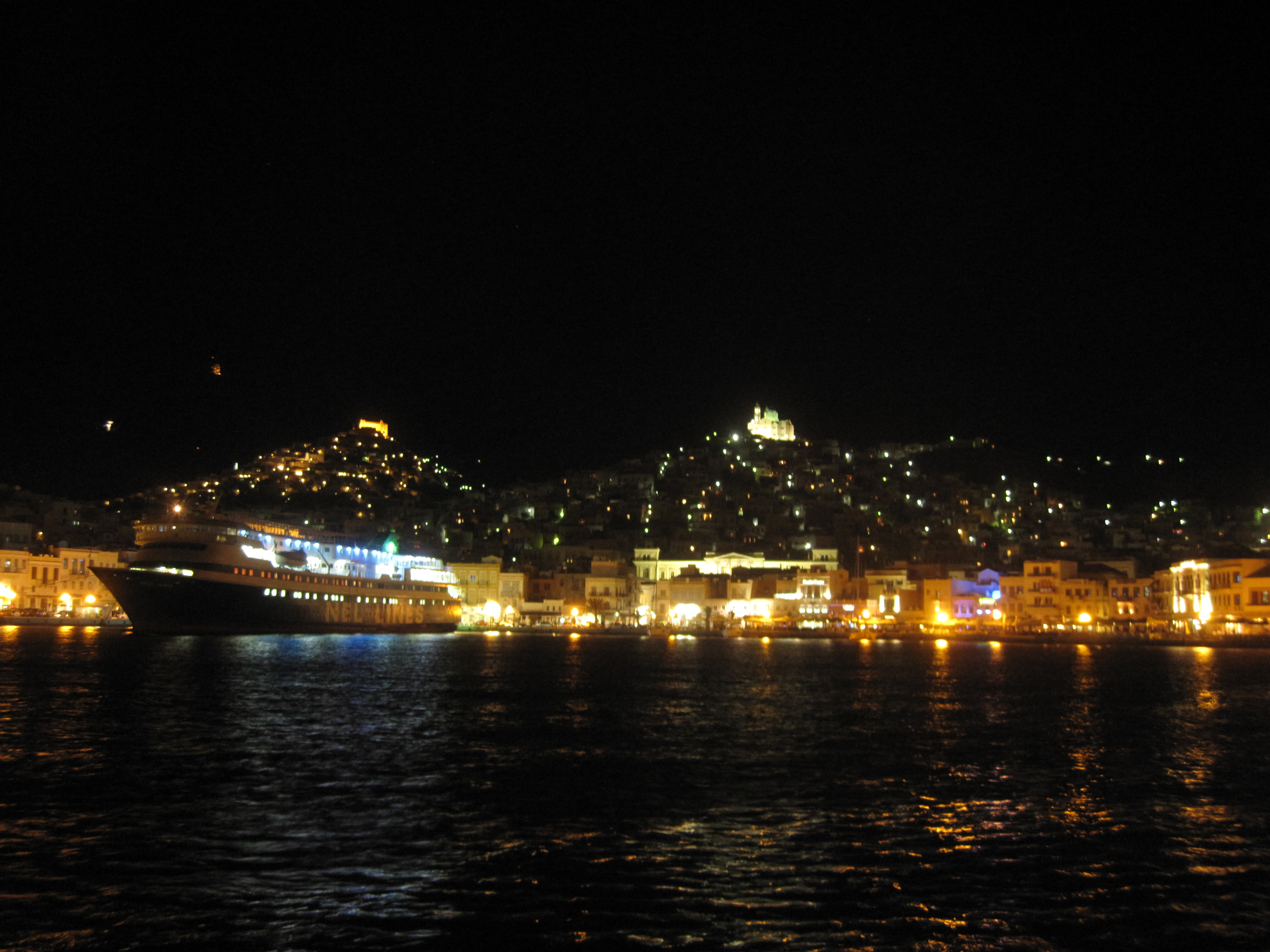 Ermoupoli at night (Syros, Greece)